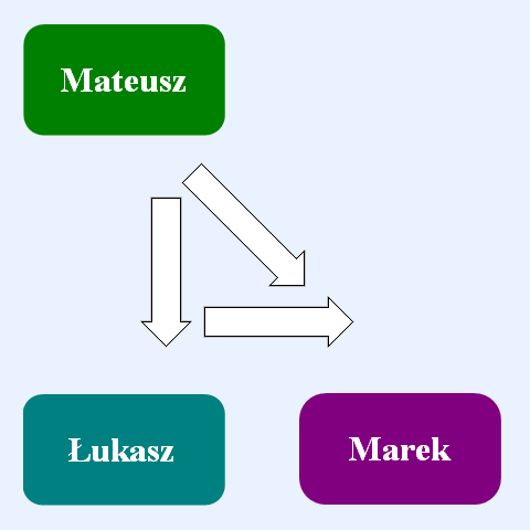 Synoptic problem according Fritzsche